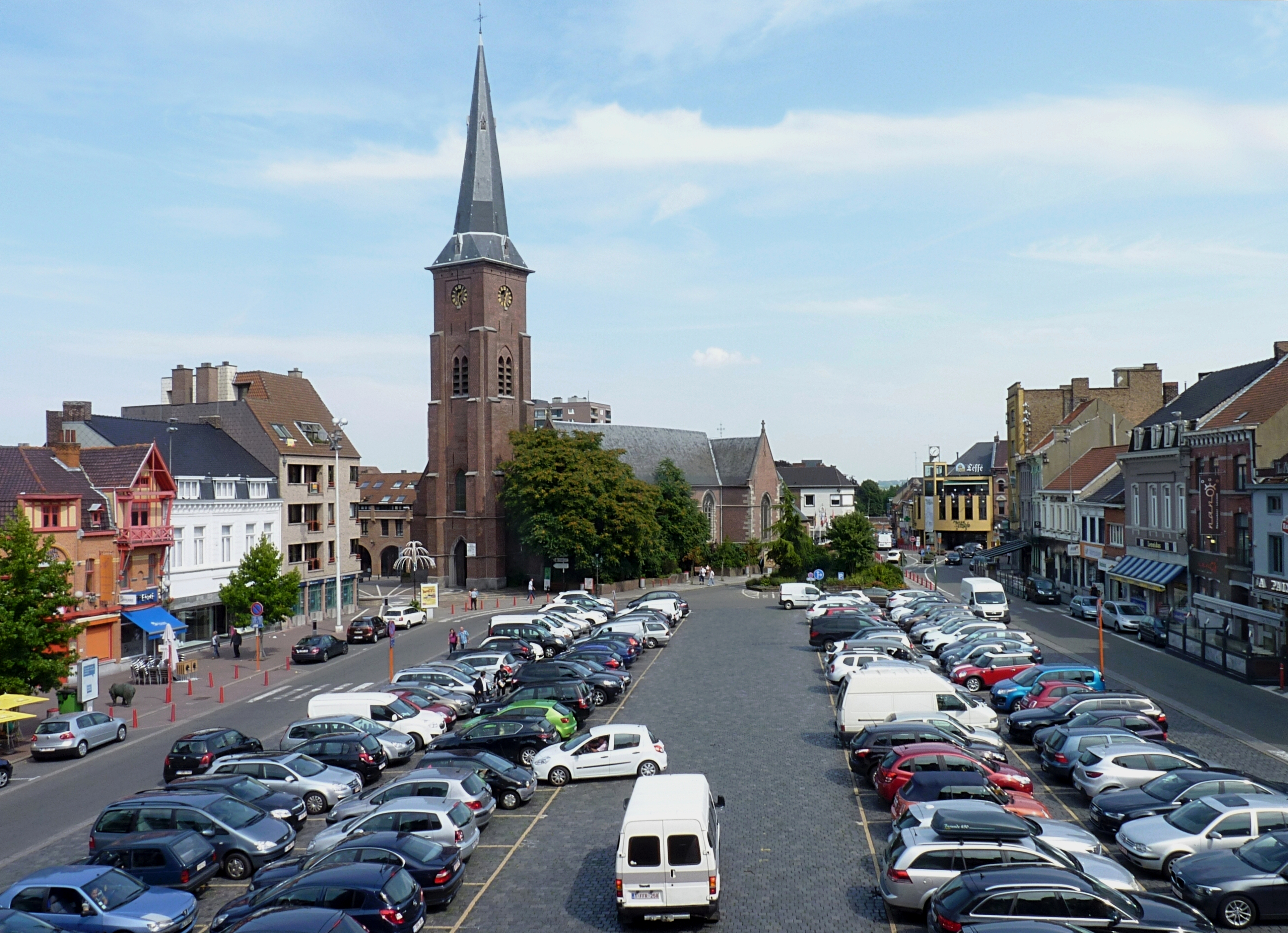 The town square of Mouscron, Belgium, on the background, the church Saint Bartholomew.